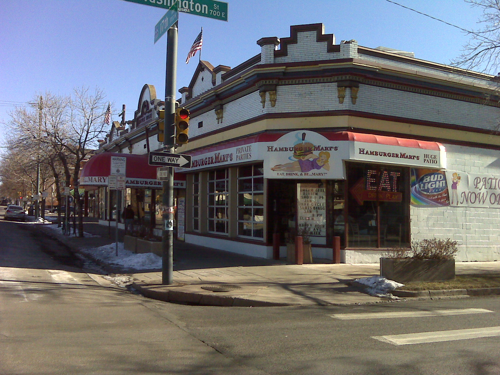 Hamburger Mary's, one of the many gay friendly establishments in the area